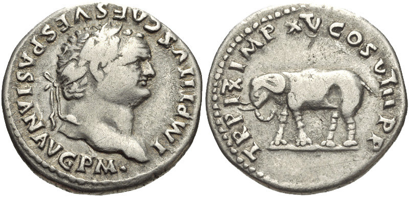 Titus. AD 79-81. AR Denarius (18mm, 3.39 g, 7h). Rome mint. Struck AD 80. Laureate head right Elephant standing left. RIC II 115; RSC 303.